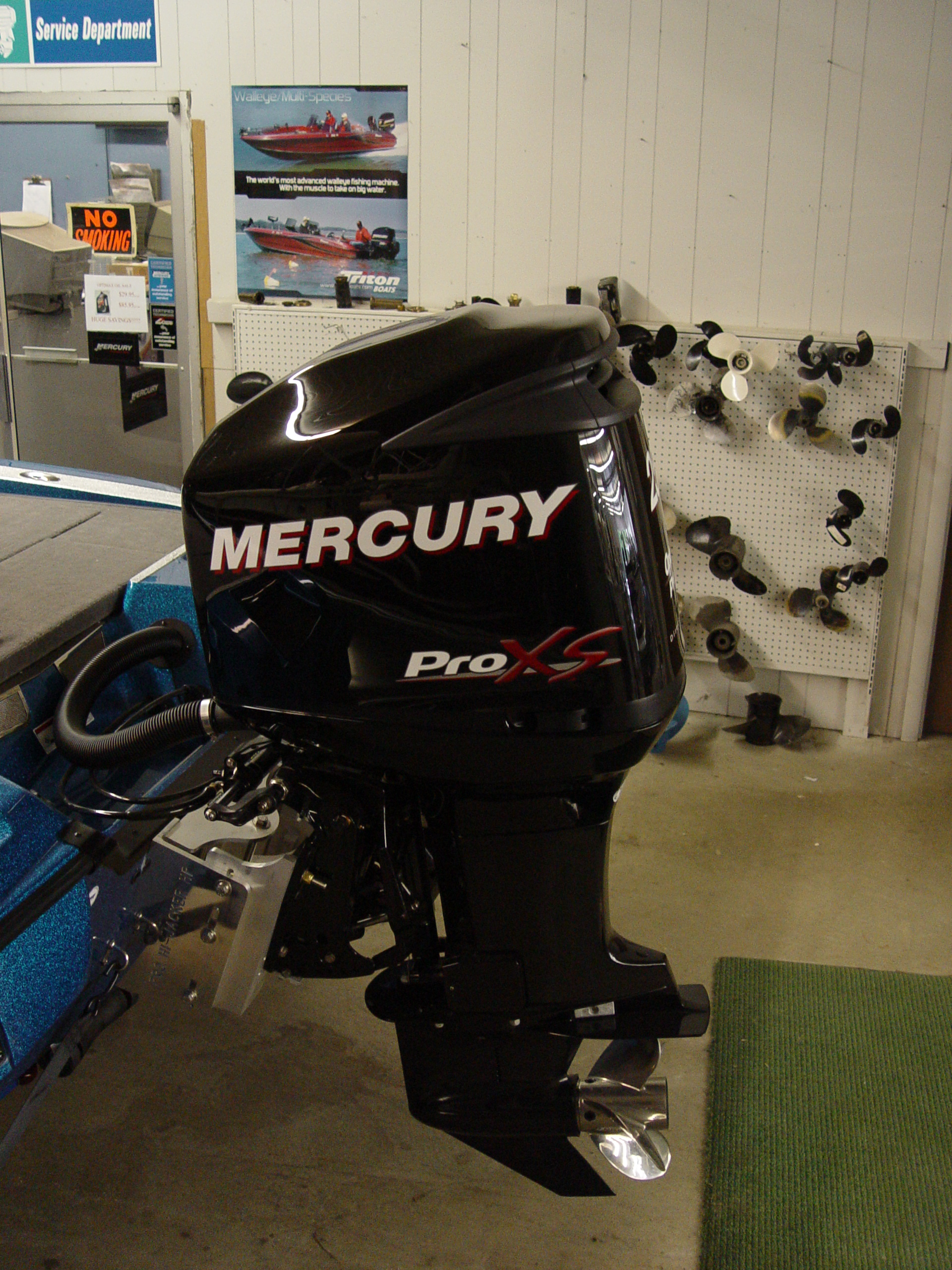 This is a picture of a 250 horse power Mercury engine.